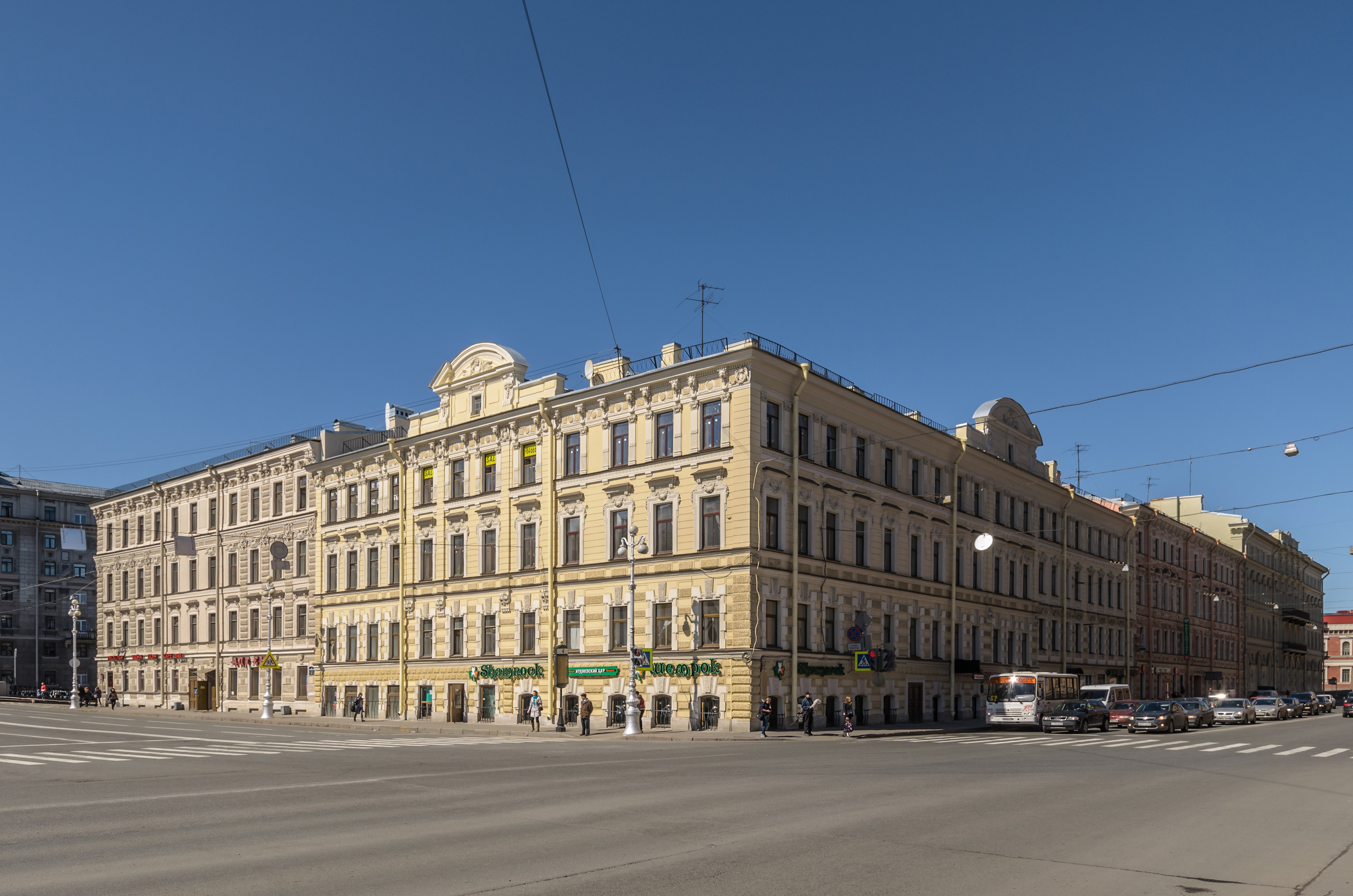 Nemkova's Apartment House in Saint Petersburg